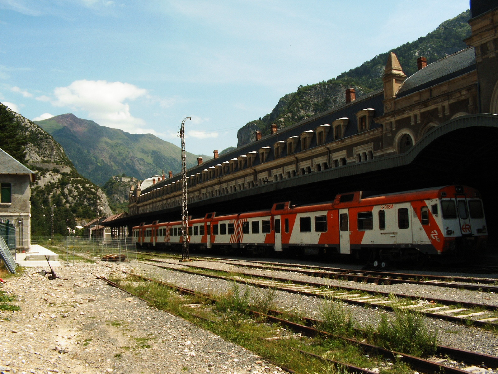 The Way of St. James or St. James' Way, often known by its Spanish name, el Camino de Santiago, is the pilgrimage to the Cathedral of Santiago de Compostela in Galicia in northwestern Spain, where legend has it that the remains of the apostle, Saint James the Great, are buried. The Way of St James has existed for over a thousand years. It was one of the most important Christian pilgrimages during medieval times. It was considered one of three pilgrimages on which a plenary indulgence could be earned;[citation needed] the others are the Via Francigena to Rome and the pilgrimage to Jerusalem. Legend holds that St. James's remains were carried by boat from Jerusalem to northern Spain where they were buried on the site of what is now the city of Santiago de Compostela. There are some, however, who claim that the bodily remains at Santiago belong to Priscillian, the fourth-century Galician leader of an ascetic Christian sect, Priscillianism, who was one of the first Christian heretics to be executed. There is not a single route; the Way can take one of any number of pilgrimage routes to Santiago de Compostela. However a few of the routes are considered main ones. Santiago is such an important pilgrimage destination because it is considered the burial site of the apostle, James the Great. During the Middle Ages, the route was highly travelled. However, the Black Plague, the Protestant Reformation and political unrest in 16th- century Europe resulted in its decline. By the 1980s, only a few pilgrims arrived in Santiago annually. However, since then, the route has attracted a growing number of modern-day pilgrims from around the globe. The route was declared the first European Cultural Route by the Council of Europe in October 1987; it was also named one of UNESCO's World Heritage Sites in 1993.